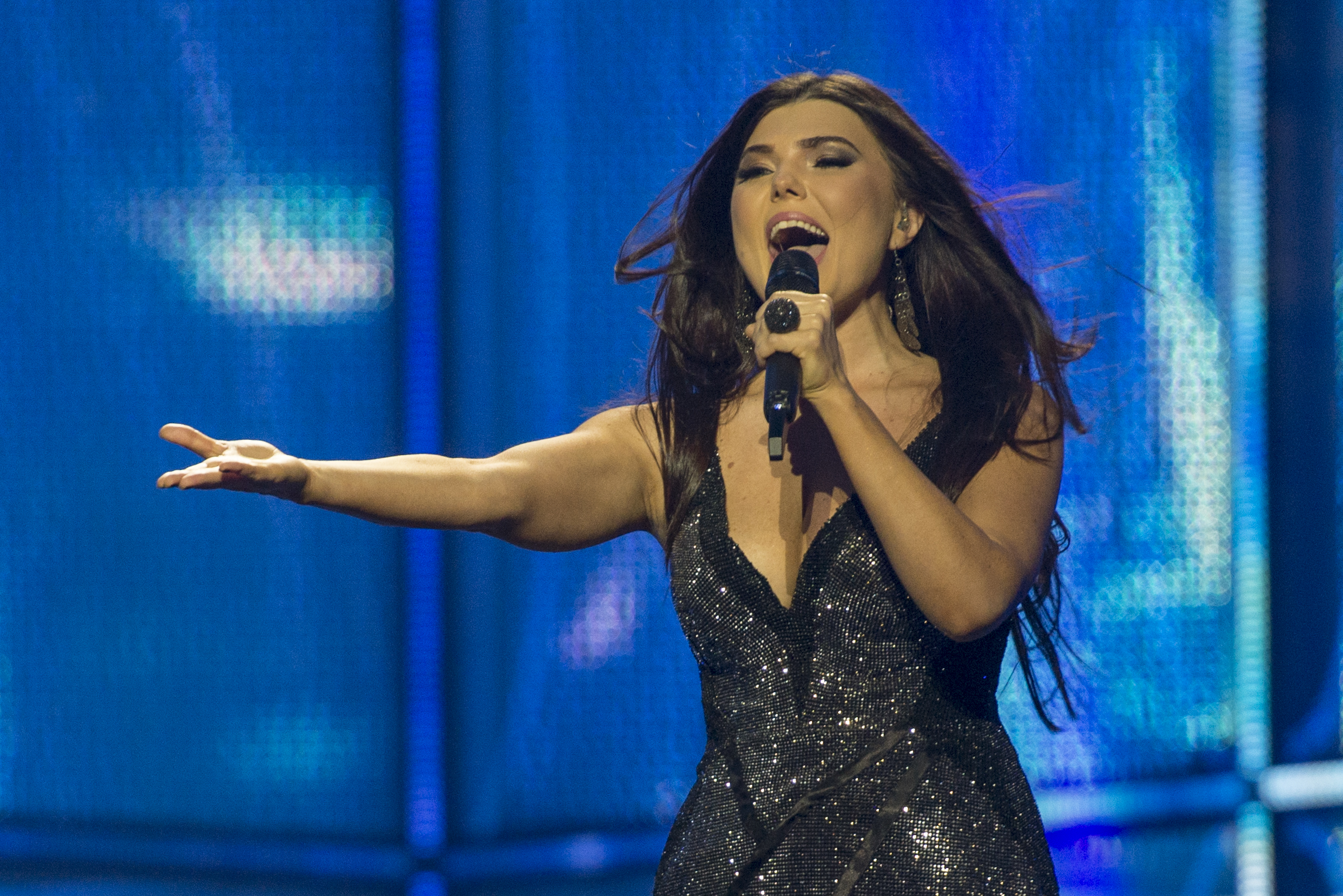 Paula Seling and Ovidiu Cernăuțeanu representing Romania with the song "Miracle" during the first dress rehearsal of the second semi final of the Eurovision Song Contest 2014 Copenhagen. (Help translate this text)